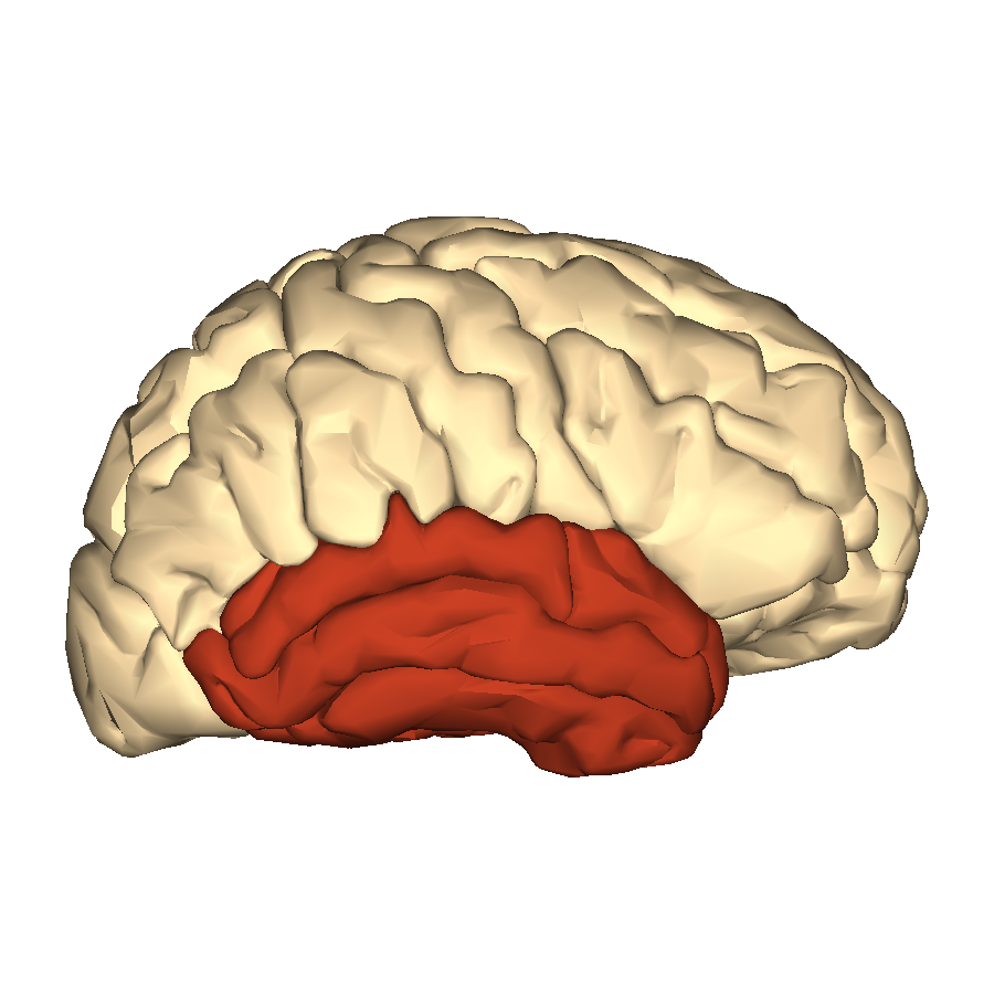 Temporal lobe (shown in red).